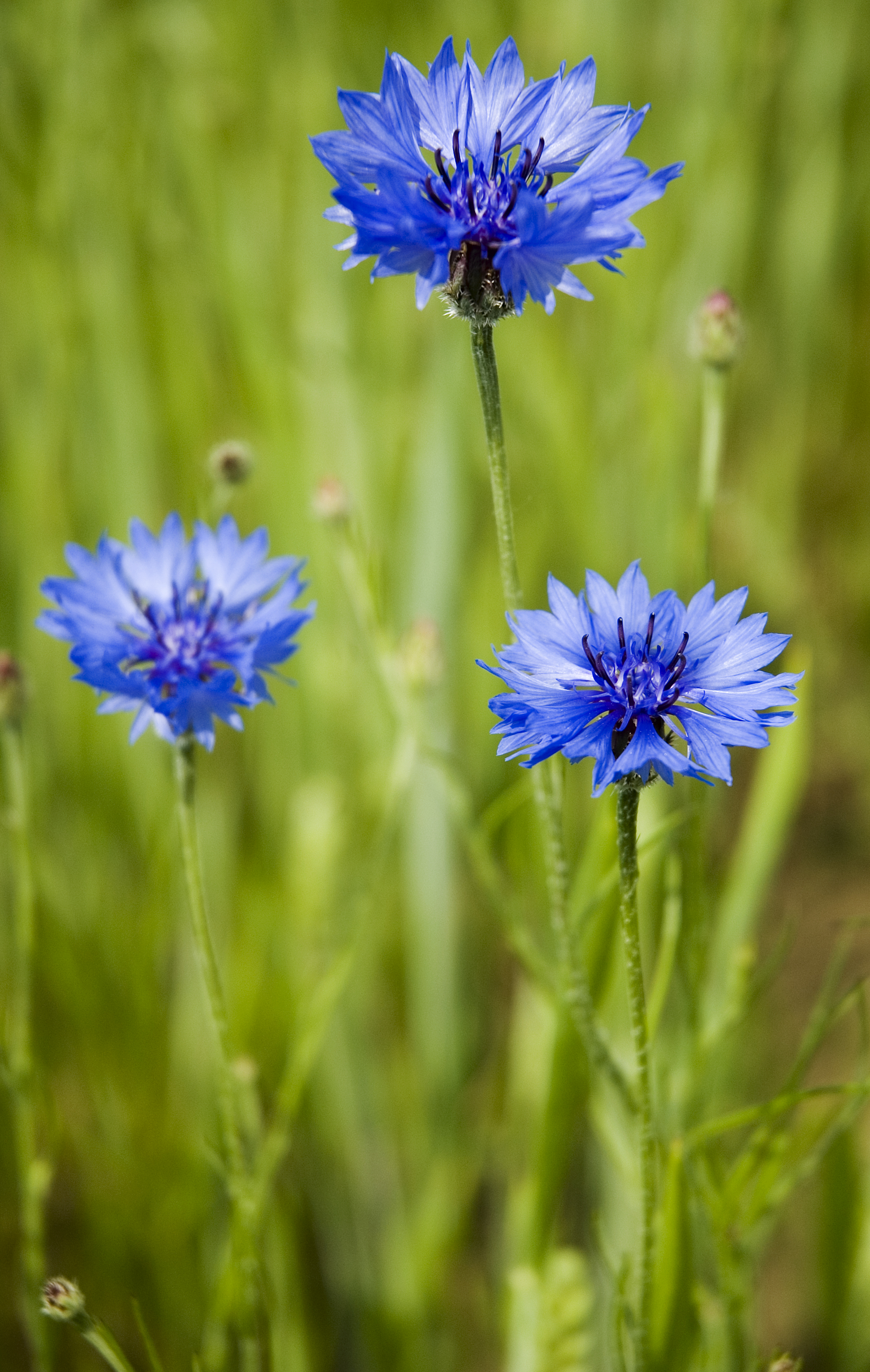 Cornflower (Centaurea cyanus)